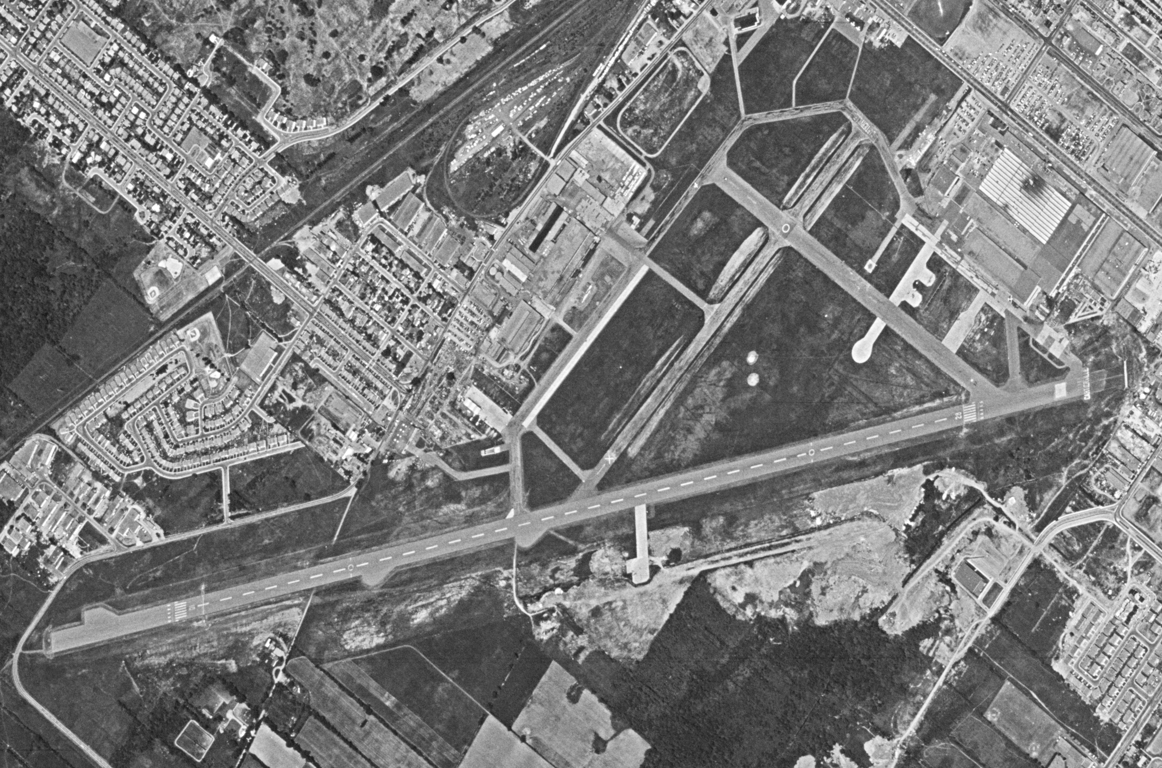 Cartierville Airport in Saint-Laurent, Canada, as photographed by a KH-9/HEXAGON satellite during mission 1201.